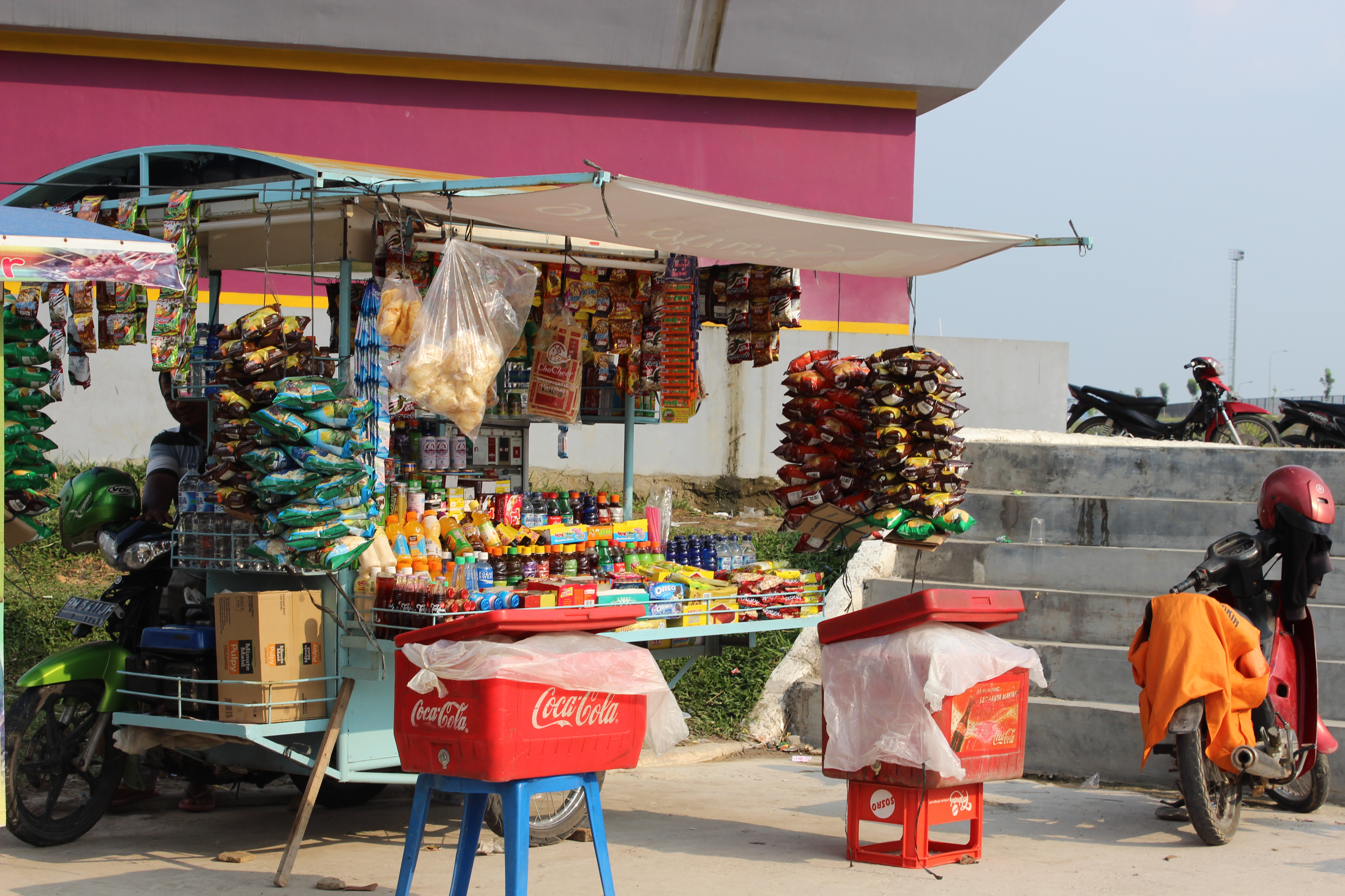 A mobile vendor in the front of Stadion Utama Riau, Pekanbaru.